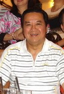 Bảo Quốc